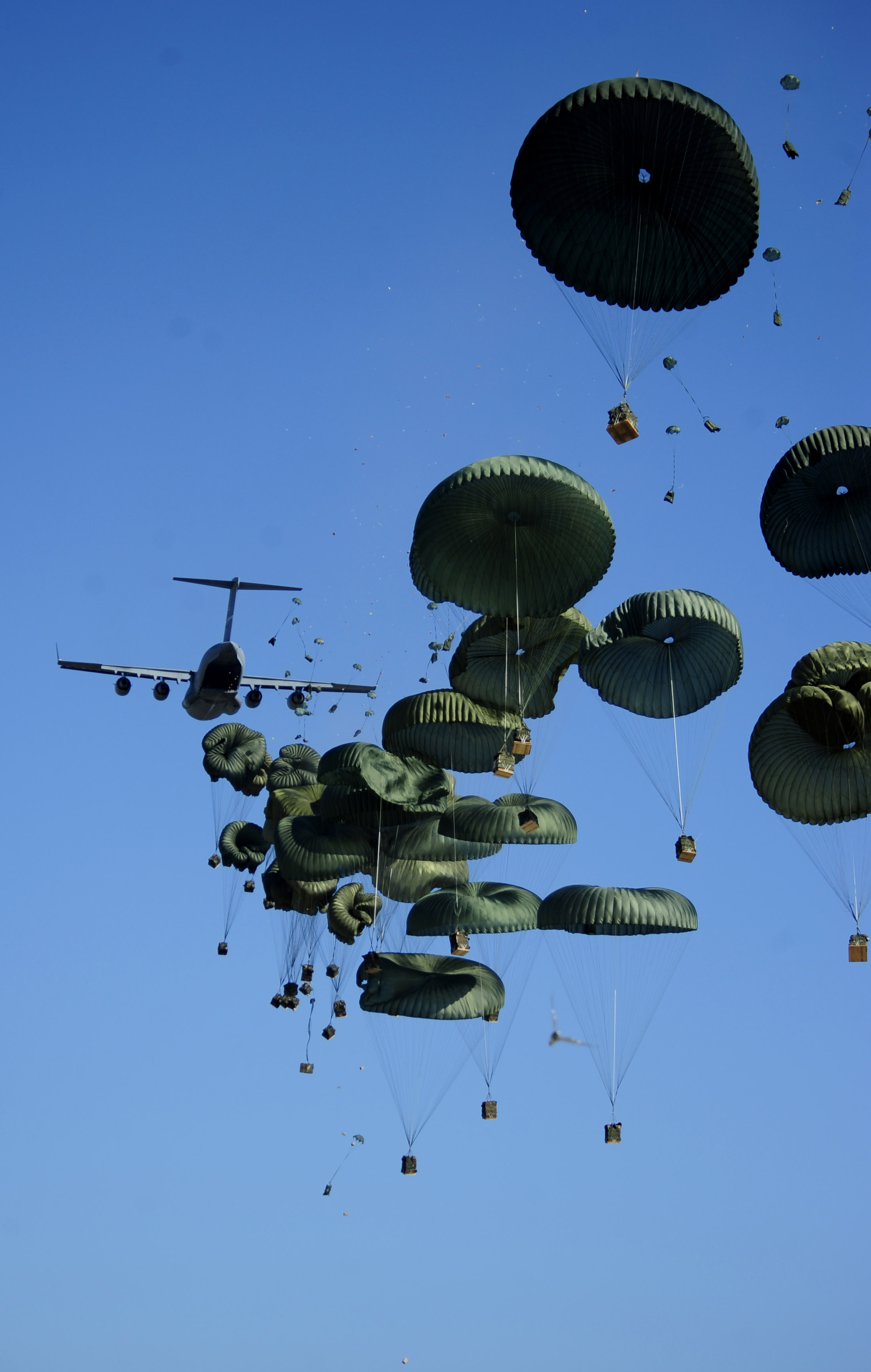 A U.S. Air Force C-17 Globemaster III aircraft airdrops humanitarian aid into Port-au-Prince, Haiti, and surrounding areas on Jan. 18, 2010. The U.S. military is conducting humanitarian and disaster relief operations as part of Operation Unified Response after a 7.0 magnitude earthquake struck the country on Jan. 12, 2010.